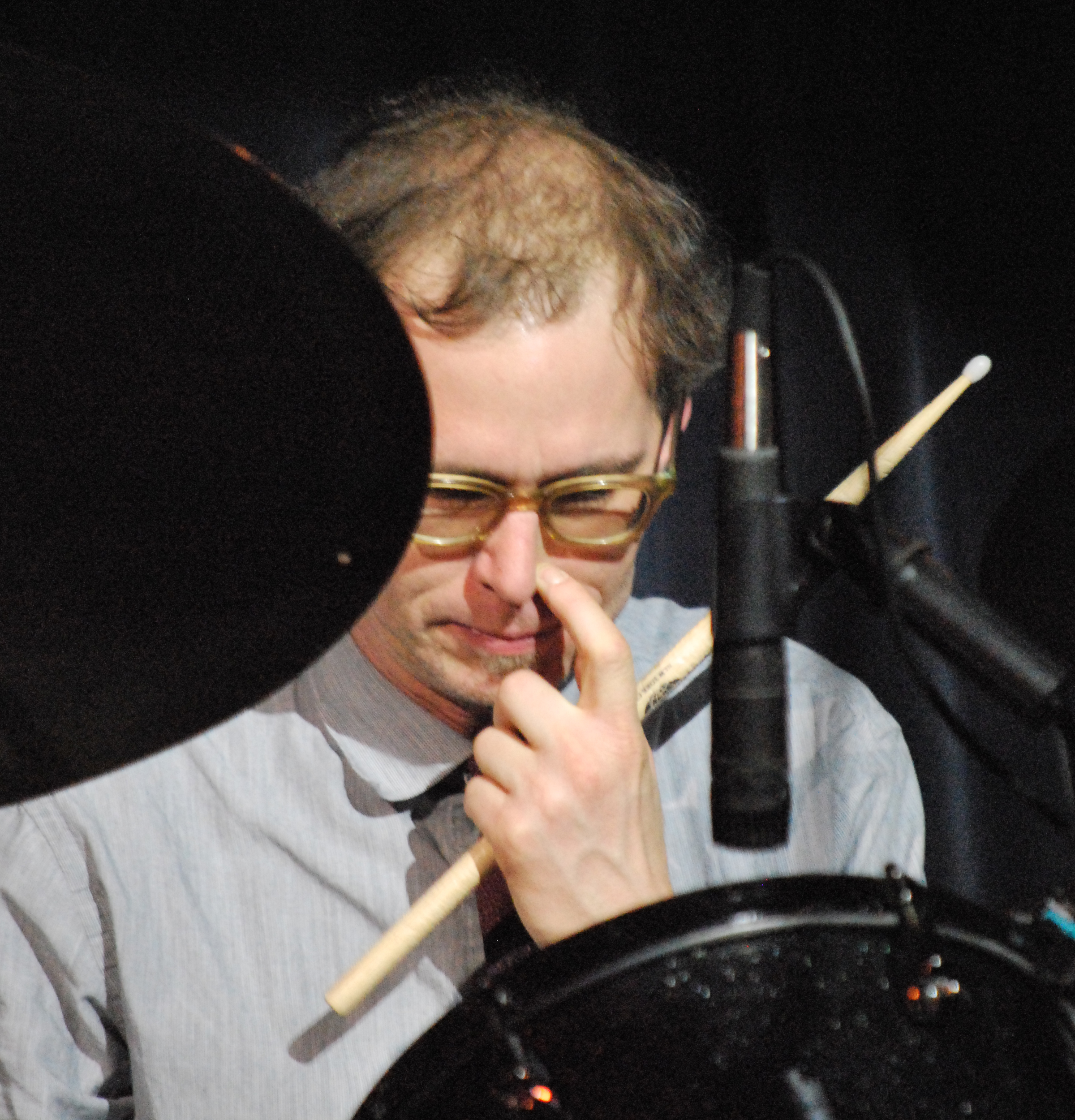 Kenny Wollesen at a concert with Sex Mob. Treibhaus Innsbruck, 2010